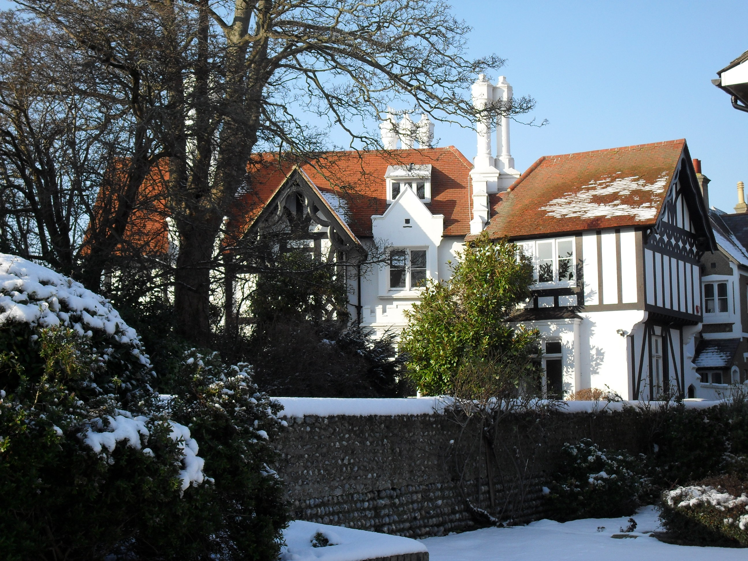 52, 52A and 52B Richmond Road, Worthing, West Sussex, England, seen from south-southeast in snow. Built as a villa in Tudor Revival style about 1840; now divided into three apartments.